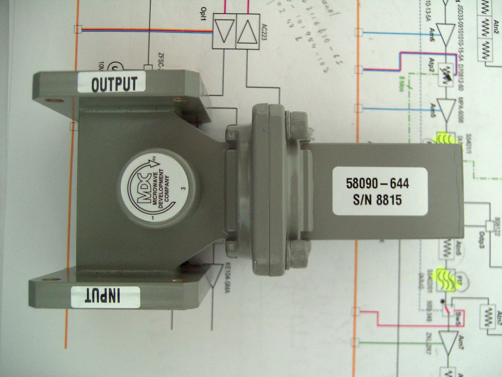 X-band microwave circulator. This is a device with three ports, with flanges to attach to waveguides. It has the property that microwave power input at one port only comes out the next port to clockwise. The circular arrow on the label indicates the direction that power travels. It is made with magnetized ferrite material. In this example a matched load resistance is attached to the righthand port. Therefore microwaves entering the bottom port (labeled INPUT) will come out the top port (labeled OUTPUT), but microwaves entering the top port will be absorbed in the load.